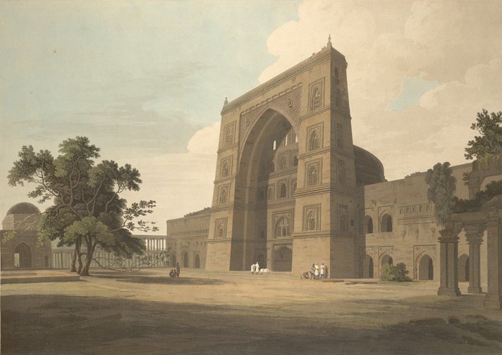 Jama Masjid, Plate 9 from the third set of Thomas and William Daniell's 'Oriental Scenery.' Artist and engraver: Daniell, Thomas (1749-1840) Medium: Aquatint, coloured Date: 1802